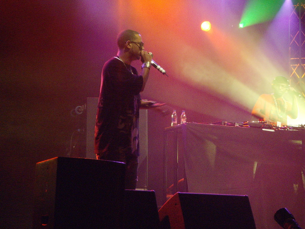 Madlib performing at All Tomorrow's Parties.